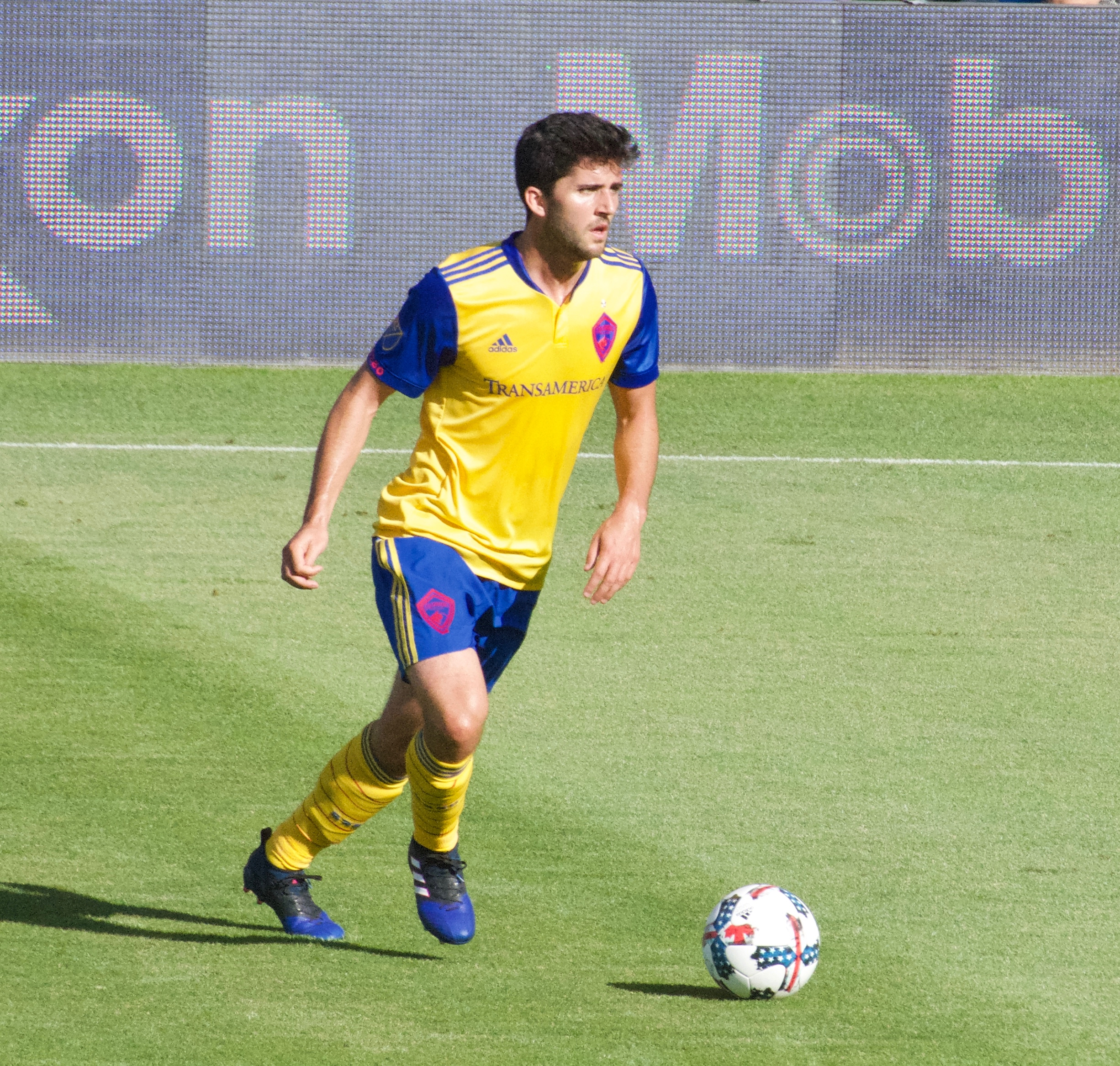 Eric Miller playing for Colorado Rapids vs San Jose Earthquakes at Avaya Stadium on 2017.07.29